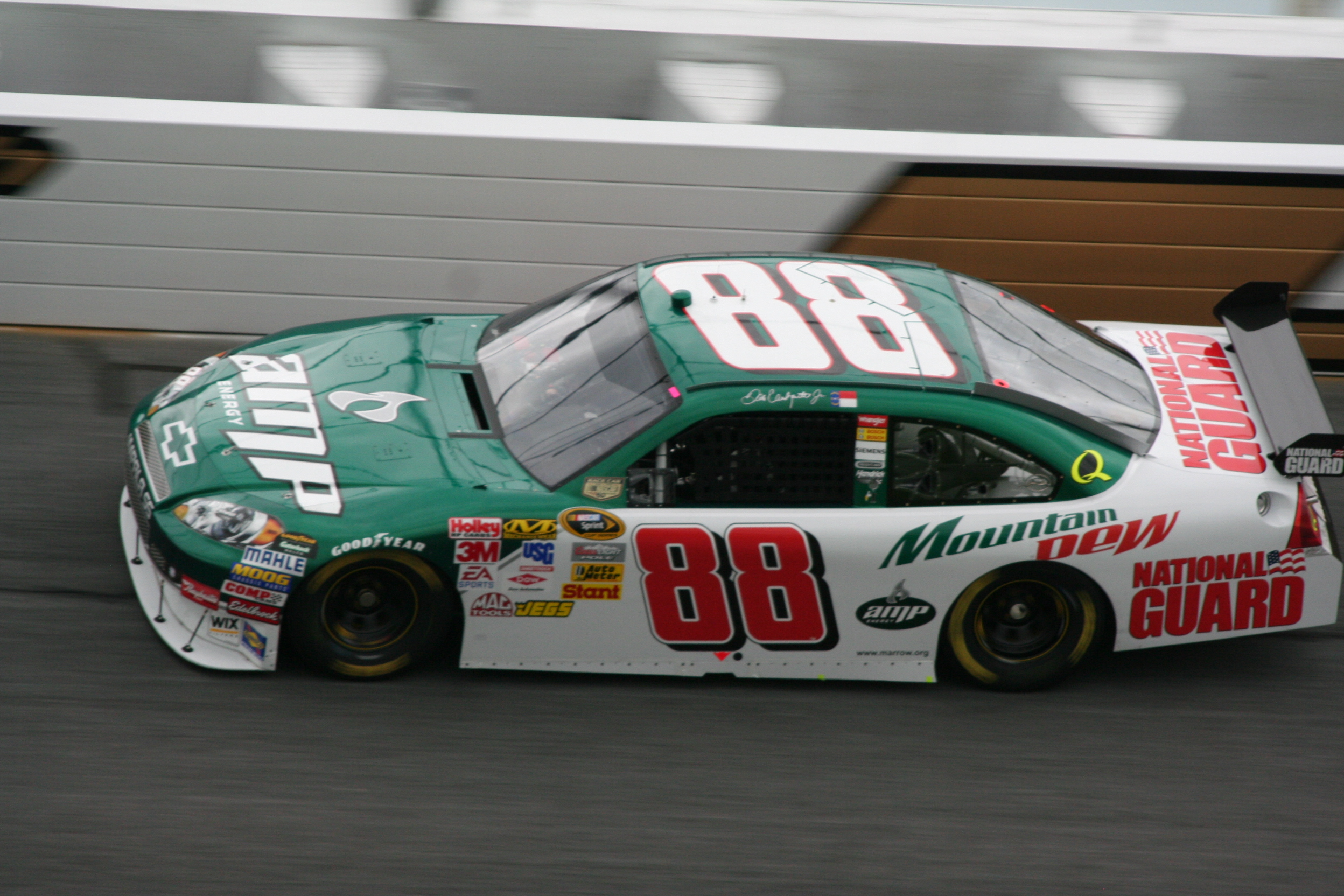 Shot by The Daredevil at Daytona during Speedweeks 2008